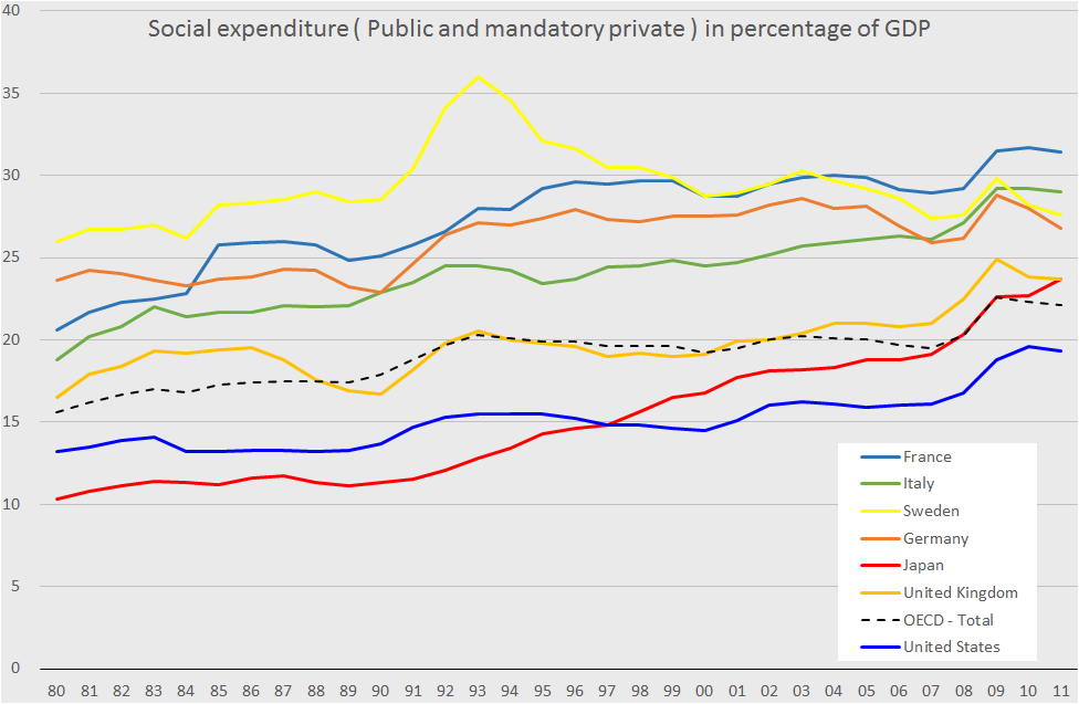 Social expenditure in percentage of GDP